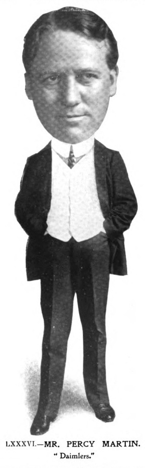 Cartoon of Percy Martin, managing director of Birmingham Small Arms Company and Daimler Company